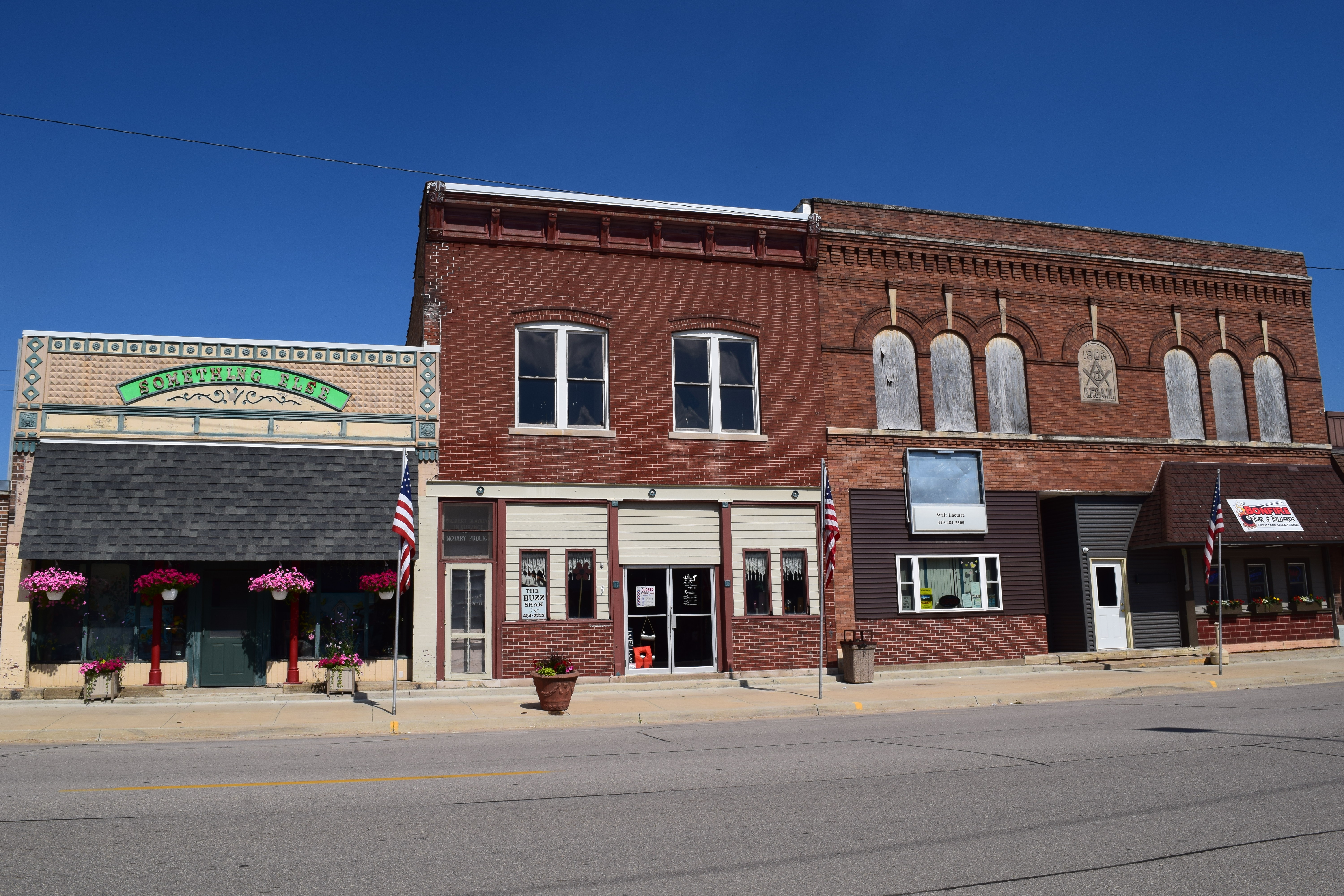 Buildings along Iowa Highway 38 in downtown Olin, Iowa. The buildings are part of the Business Part of Olin Historic District.